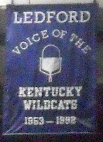 A banner honoring long-time Kentucky Wildcats radio announcer Cawood Ledford